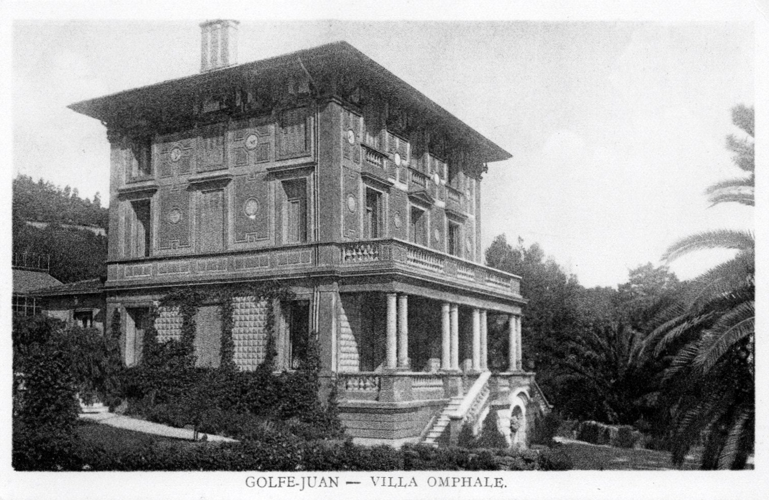 Villa called Omphale whose owner is the Parisian actress, Amélie Diéterle (1871-1941), National road from Antibes to Golfe-Juan, city of Vallauris, in the Alpes-Maritimes department. The villa owes its name to one of the great roles of the artist, the queen Omphale, in the opéra bouffe, The Labors of Hercules of Gaston Arman de Caillavet and Robert de Flers, in 1901. Amélie Diéterle is a French actress born in Strasbourg on February 20, 1871 and died in Cannes on January 20, 1941. She was legitimated in Paris in 1892 by Captain Louis Laurent, Knight of the Legion of Honor. Amélie Diéterle married in Vallauris on June 16th, 1930 with André Simon (1877-1965). Amélie Diéterle plays mainly at the Théâtre des Variétés in Paris during the Belle Époque.